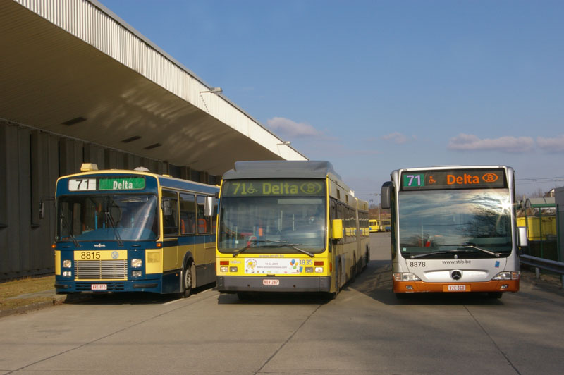 Busses 71